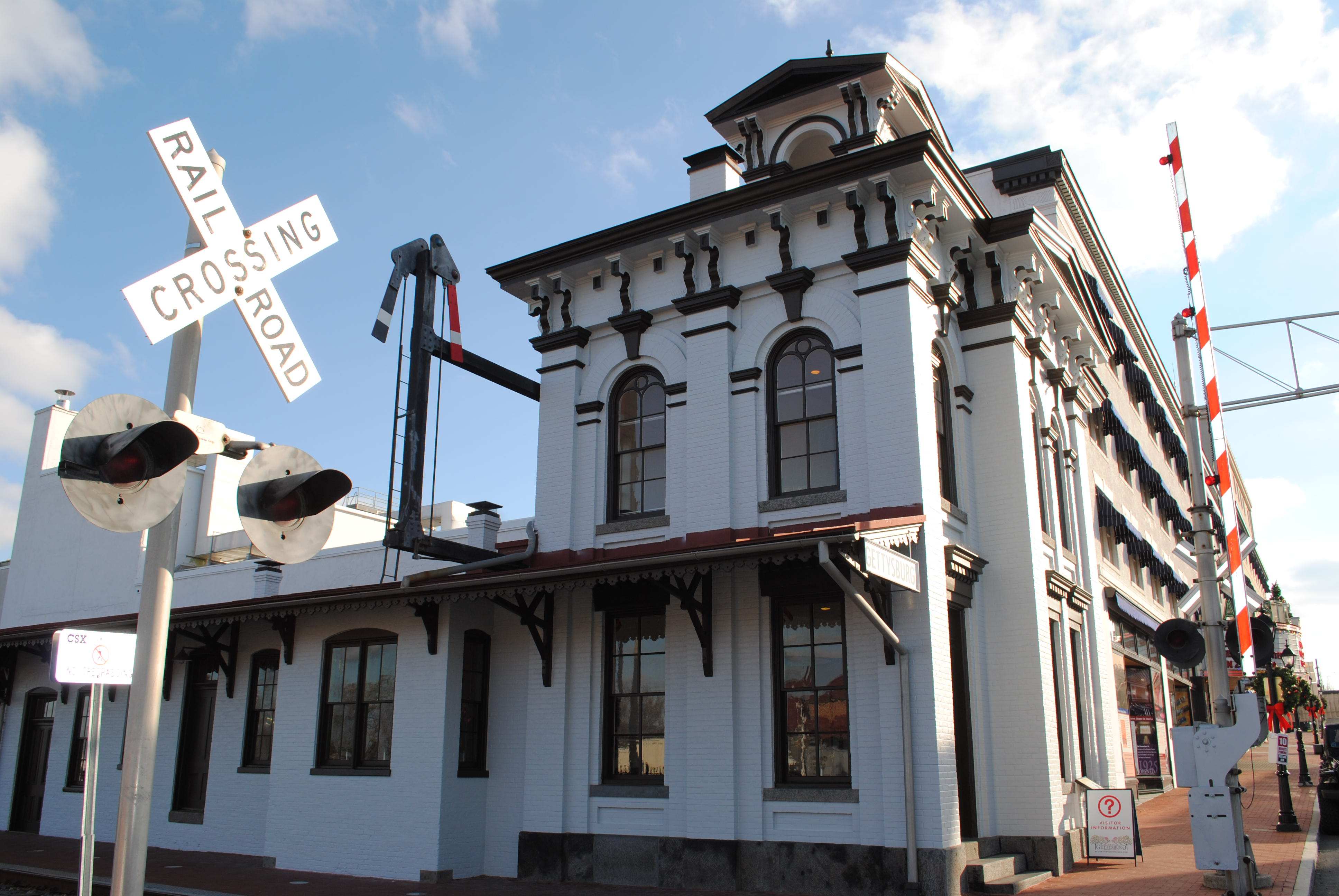 The Gettysburg Lincoln Railroad Station was repainted in November 2014 to reflect the historic colors from 1863.